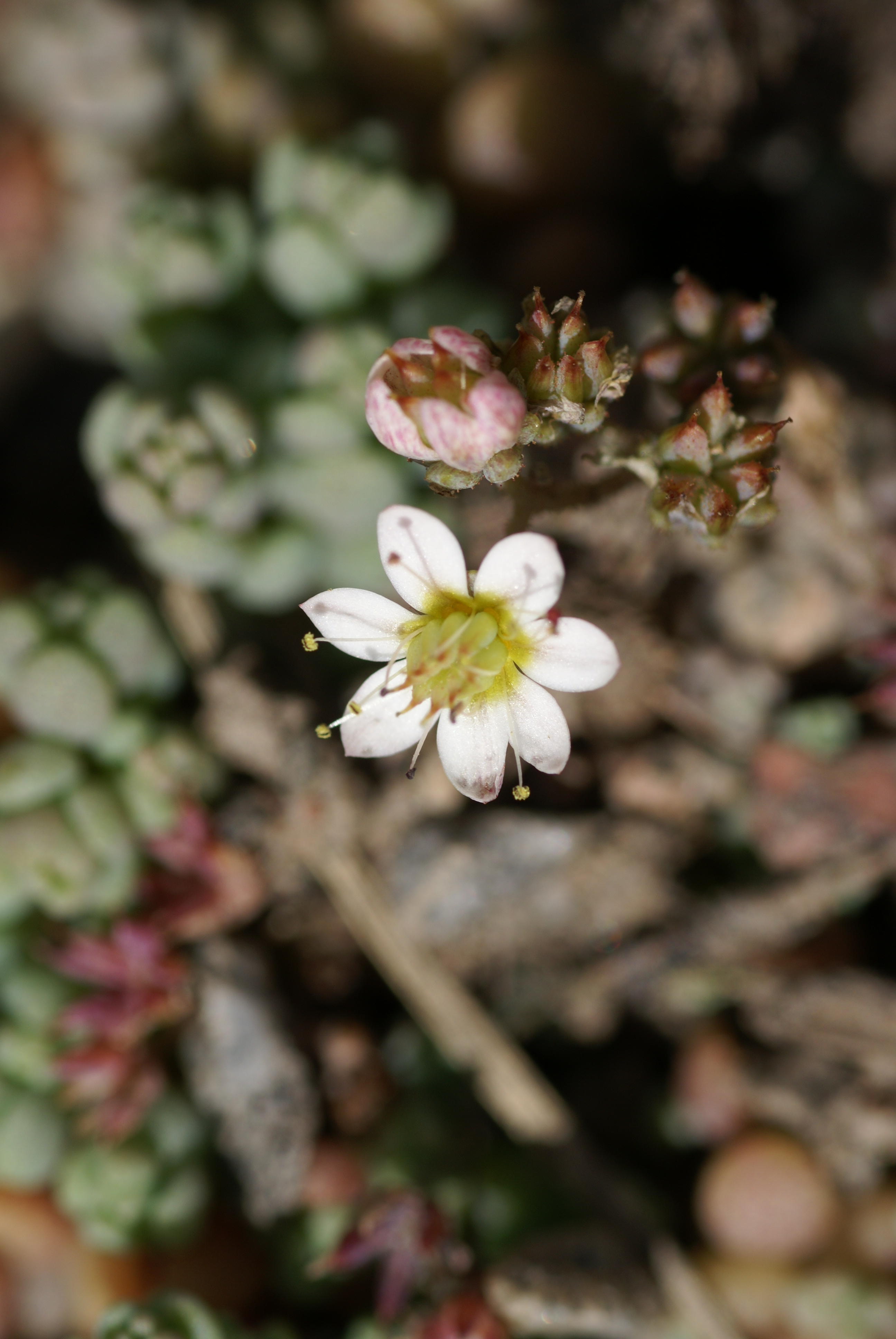 Plant species Sedum dasyphyllum in Bergianska trädgården, Stockholm, Sweden.